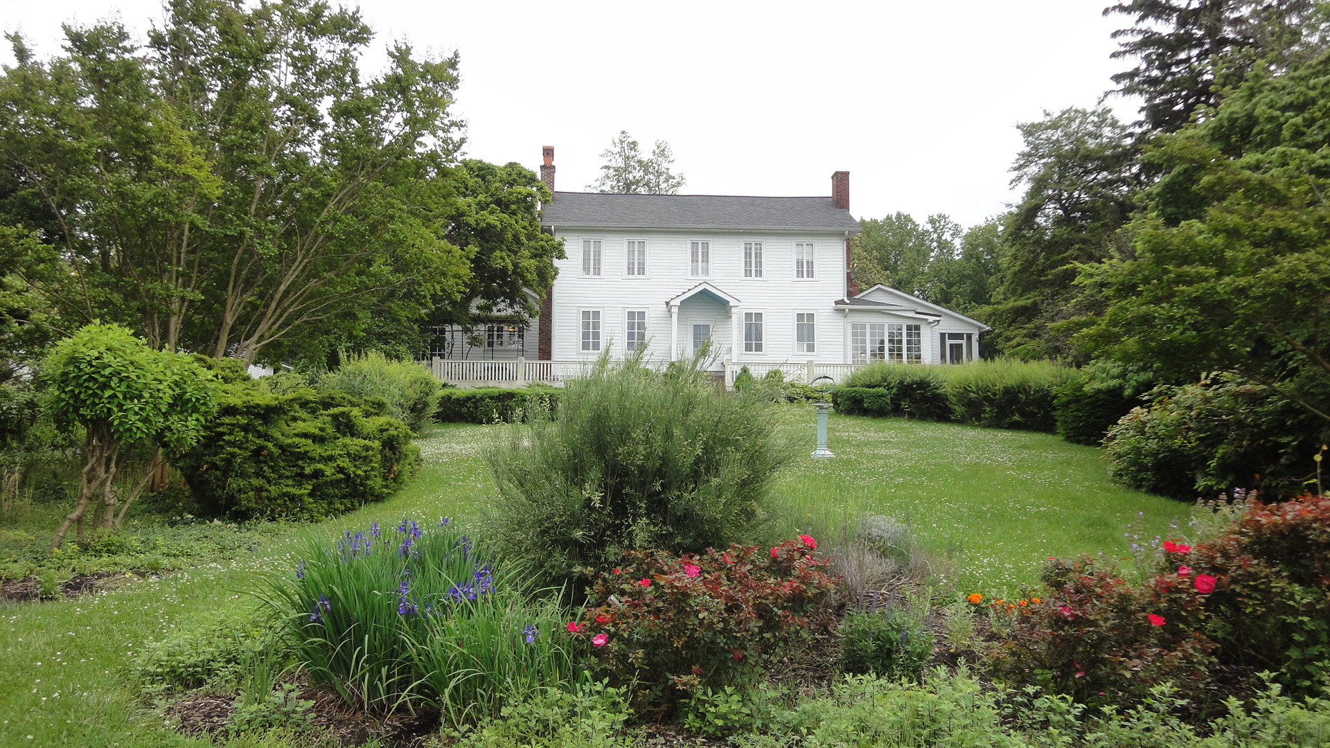 The farm house and garden at Hard Bargain Farm. The land was owned by Alice Ferguson, a notable artist. It is now run by the Alice Ferguson Foundation.